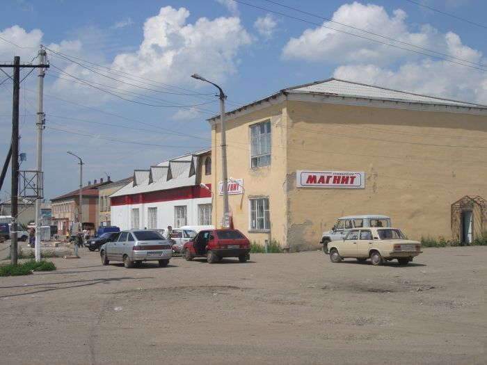 Arkadak. Supermarket "Magnet".